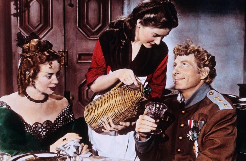 Left to Right: Elsa Lanchester, Barbara Bates, and Danny Kaye in The Inspector General (1949) - cropped screenshot